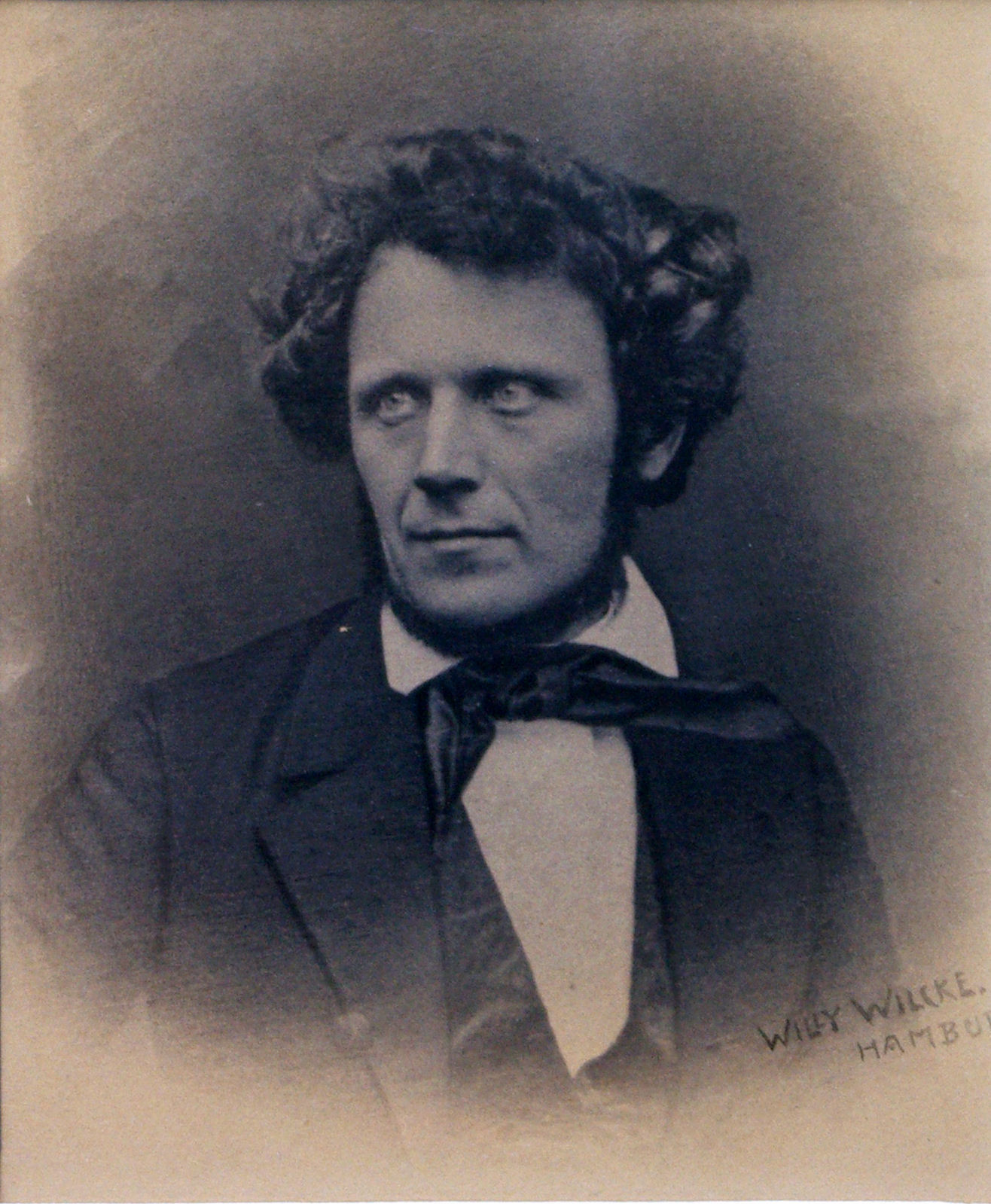 Adolph Friedrich Vollmer. A late 19th century copy of a daguerreotype by Hermann Biow, who opened the earliest commercial photographic studio in Hamburg in 1841. Vollmer’s age of ca. 35-40 dates the original to 1846 or earlier.